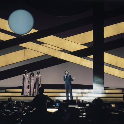 Braulio at a rehearsal for the Eurovision Song Contest 1976.